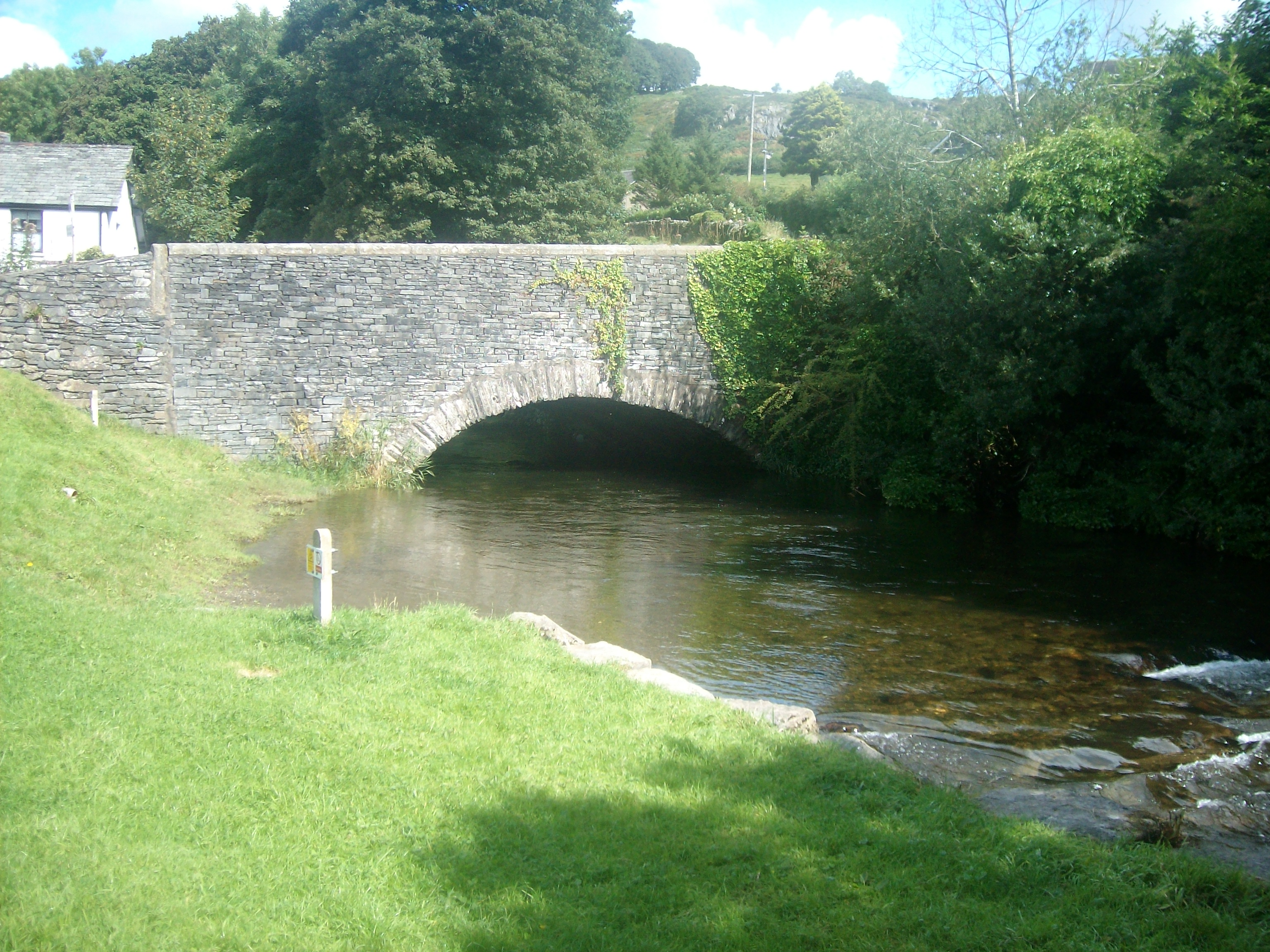 The River Crake running through Spark Bridge, Cumbria